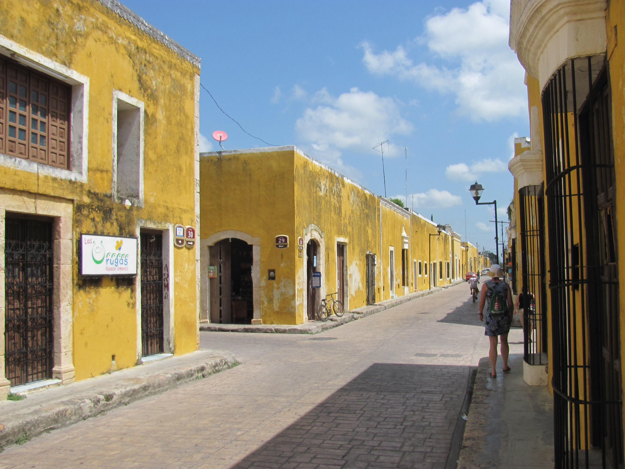 Izamal the yellow town